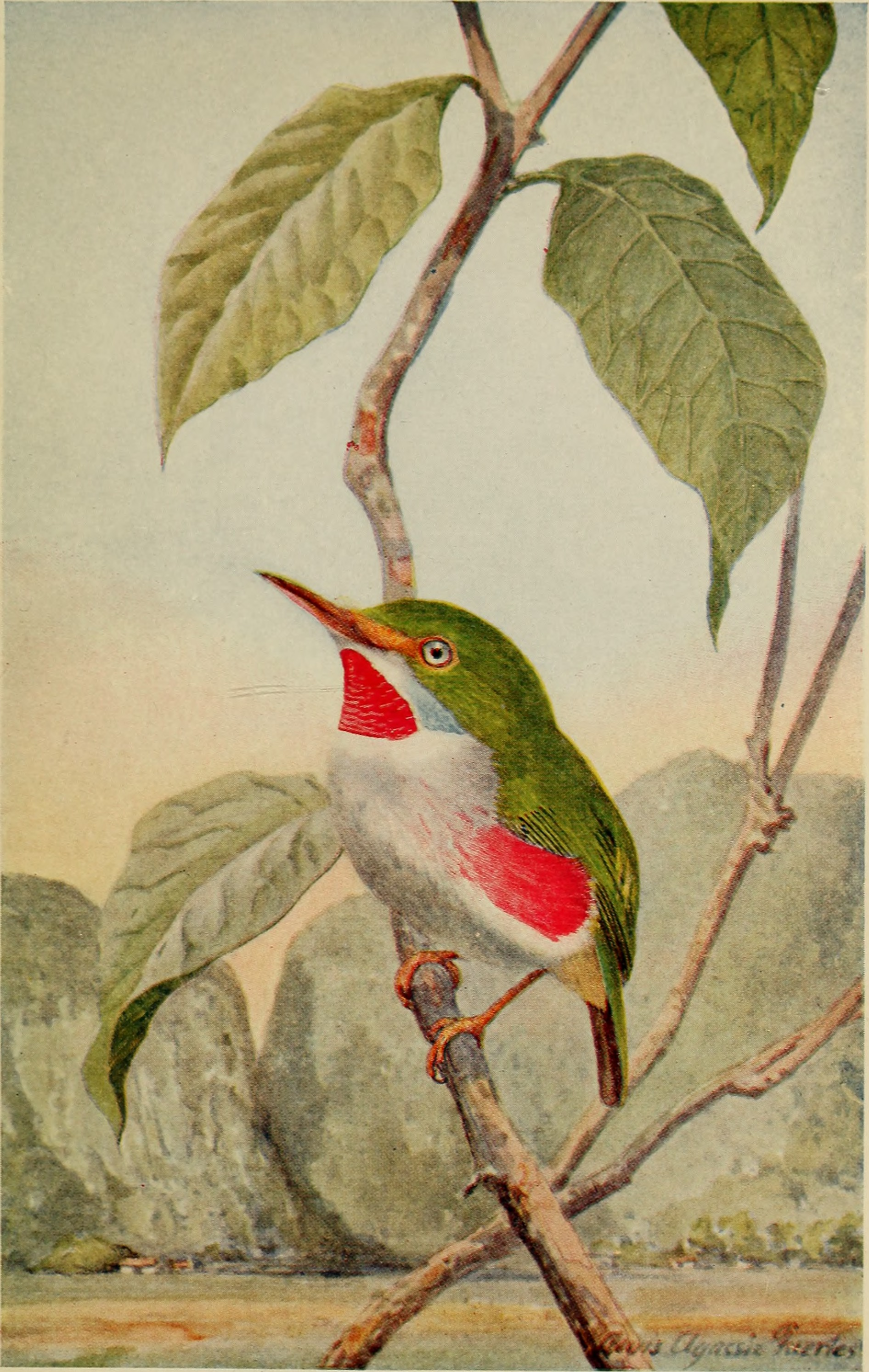 Title: The cruise of the Tomas Barrera; the narrative of a scientific expedition to western Cuba and the Colorados reefs, with observations on the geology, fauna, and flora of the region Year: 1916 (1910s) Authors: Henderson, J. B. (John Brooks), 1870-1923 Subjects: Natural history; Scientific expeditions Publisher: New York, and London, G. P. Putnam's sons Text Appearing Before Image: ' Text Appearing After Image: CUBAN TODY (Todus mullicolor Gld.) Drawn by Louis Agassiz Fuertes